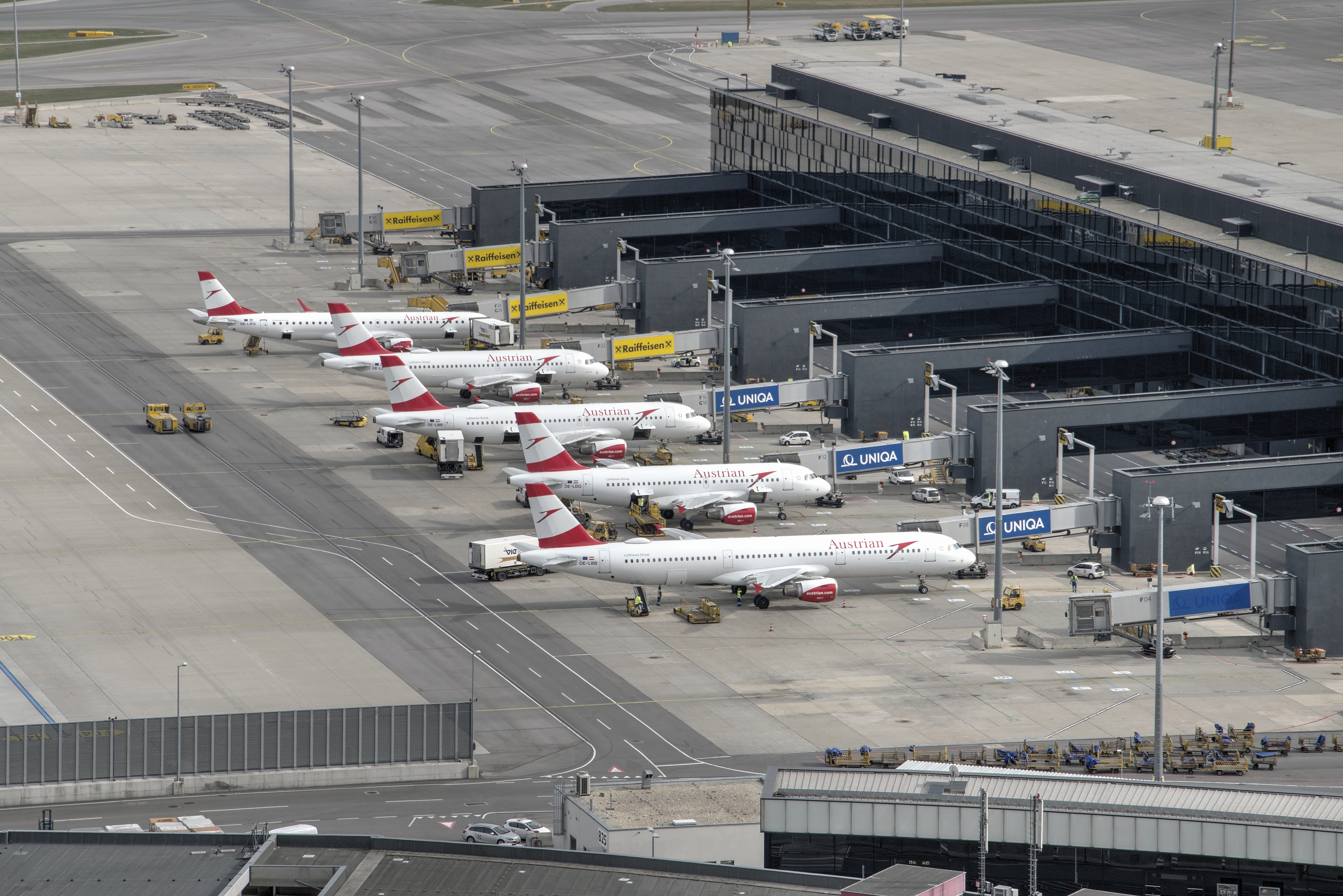 Pier Nord, Vienna International Airport from the Air Traffic Control Tower. Embraer ERJ-195LR, OE-LWG, Airbus 320-214, OE-LBR, Airbus 319-112, OE-LDG, Airbus 321-111, OE-LBB